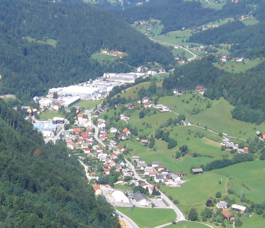 Spodnja Rečica, a village in the Municipality of Laško, eastern Slovenia, viewed from Hum, a hill above the town of Laško.